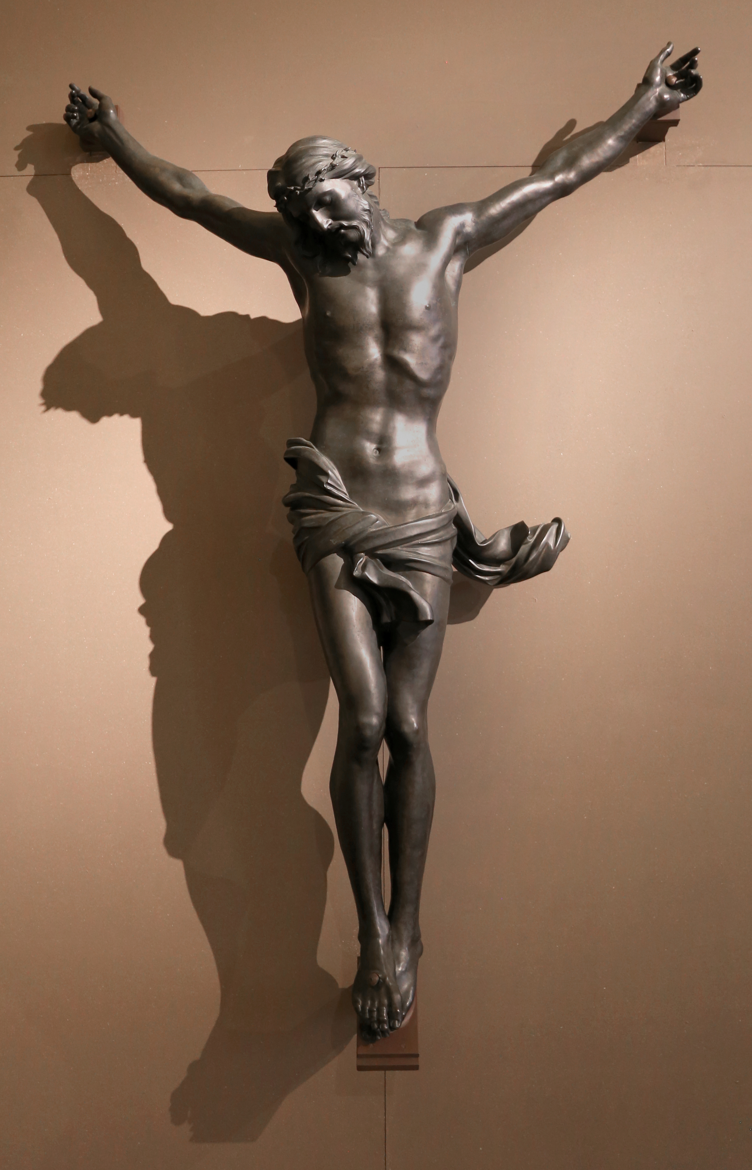 Mostra Gianlorenzo Bernini, Roma 2018